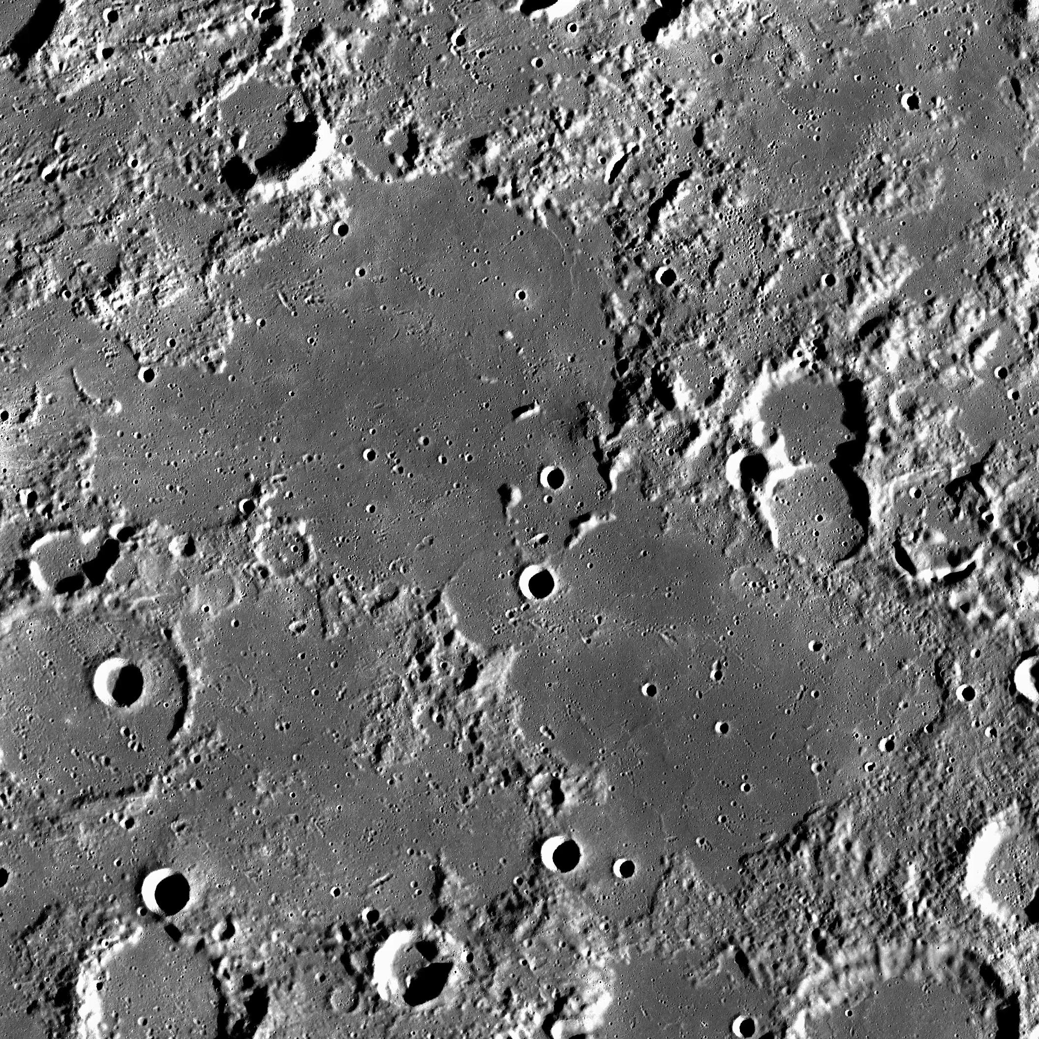 Lacus Temporis on the Moon. Mosaic of photos by Lunar Reconnaissance Orbiter, made with Wide Angle Camera. Size of the image is 250×250 km, north is approximately up.